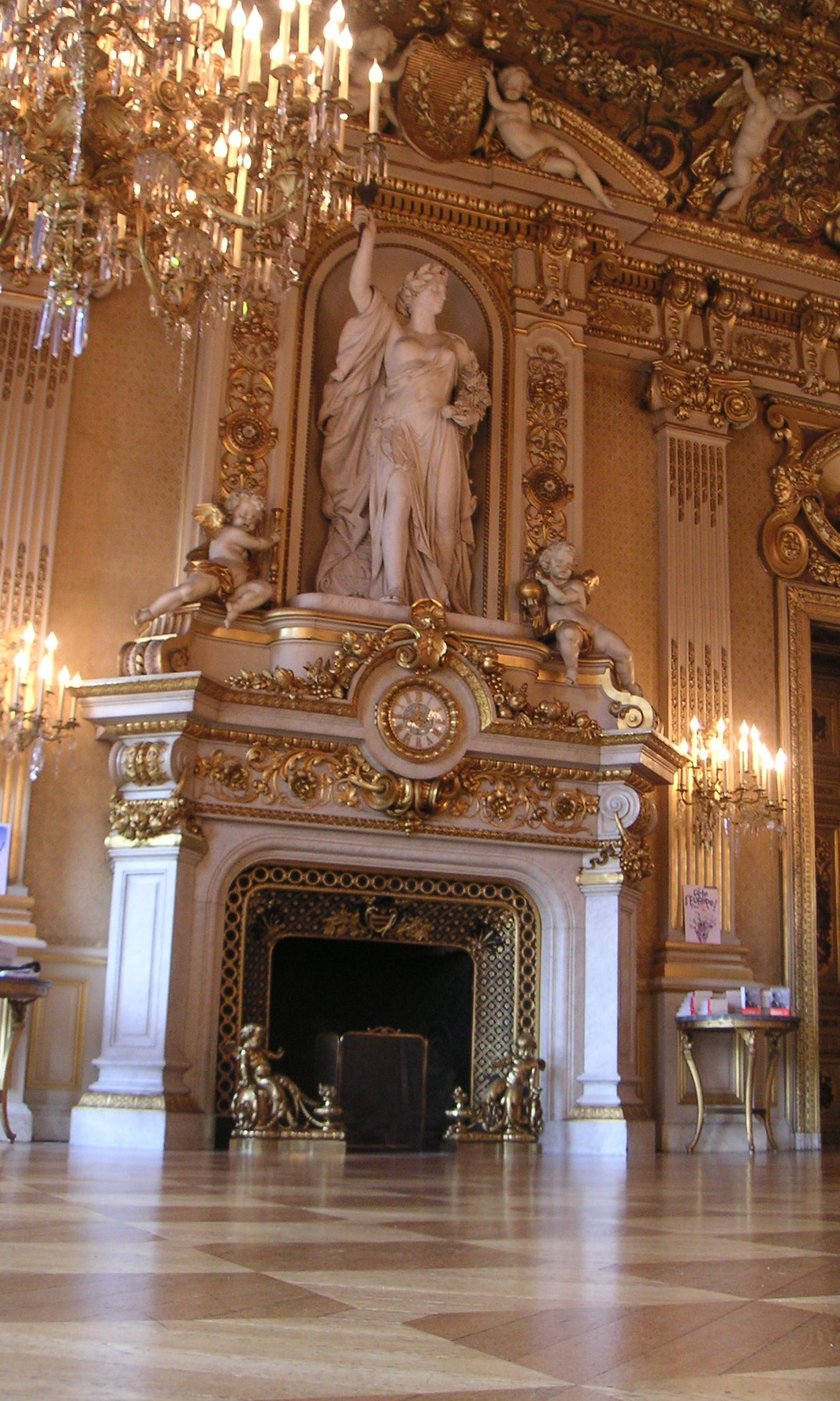 Salon de l'Horloge (The clock room). It was here that, on 9 May 1950, Robert Schuman gave the speech launching the plan for a European Coal and Steel Community (ECSC).[1]